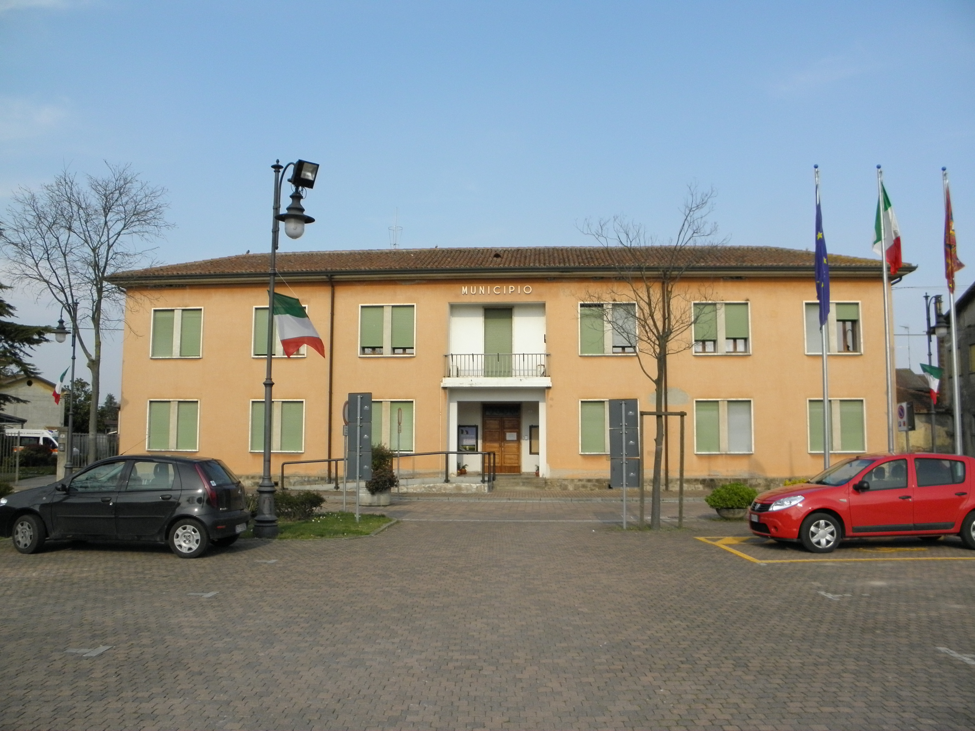 Lusia, province of Rovigo: the town hall palace.